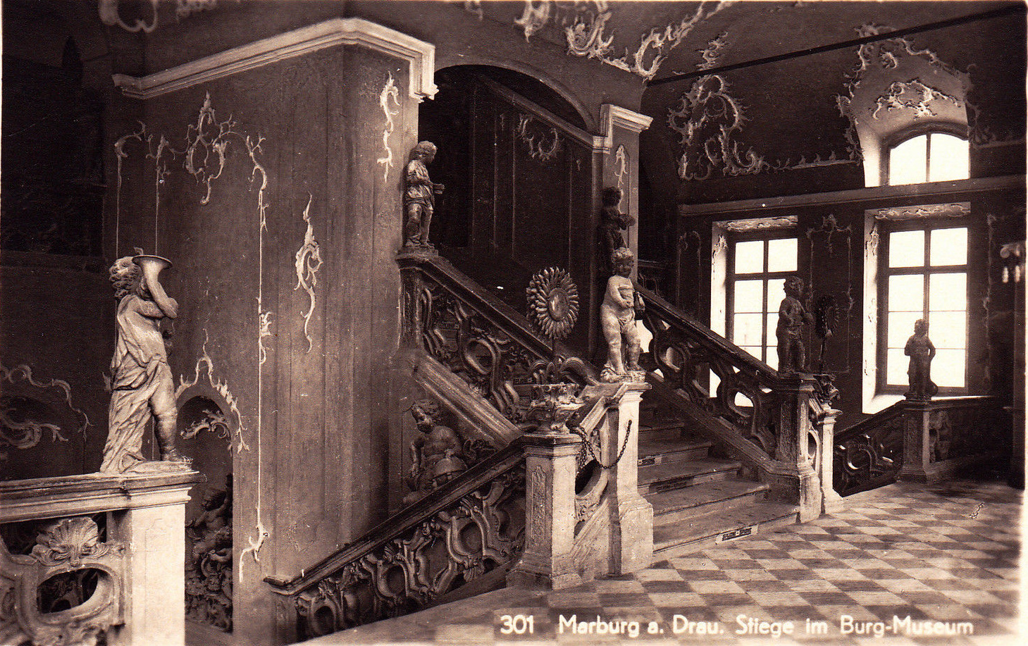 Postcard of Maribor Castle.